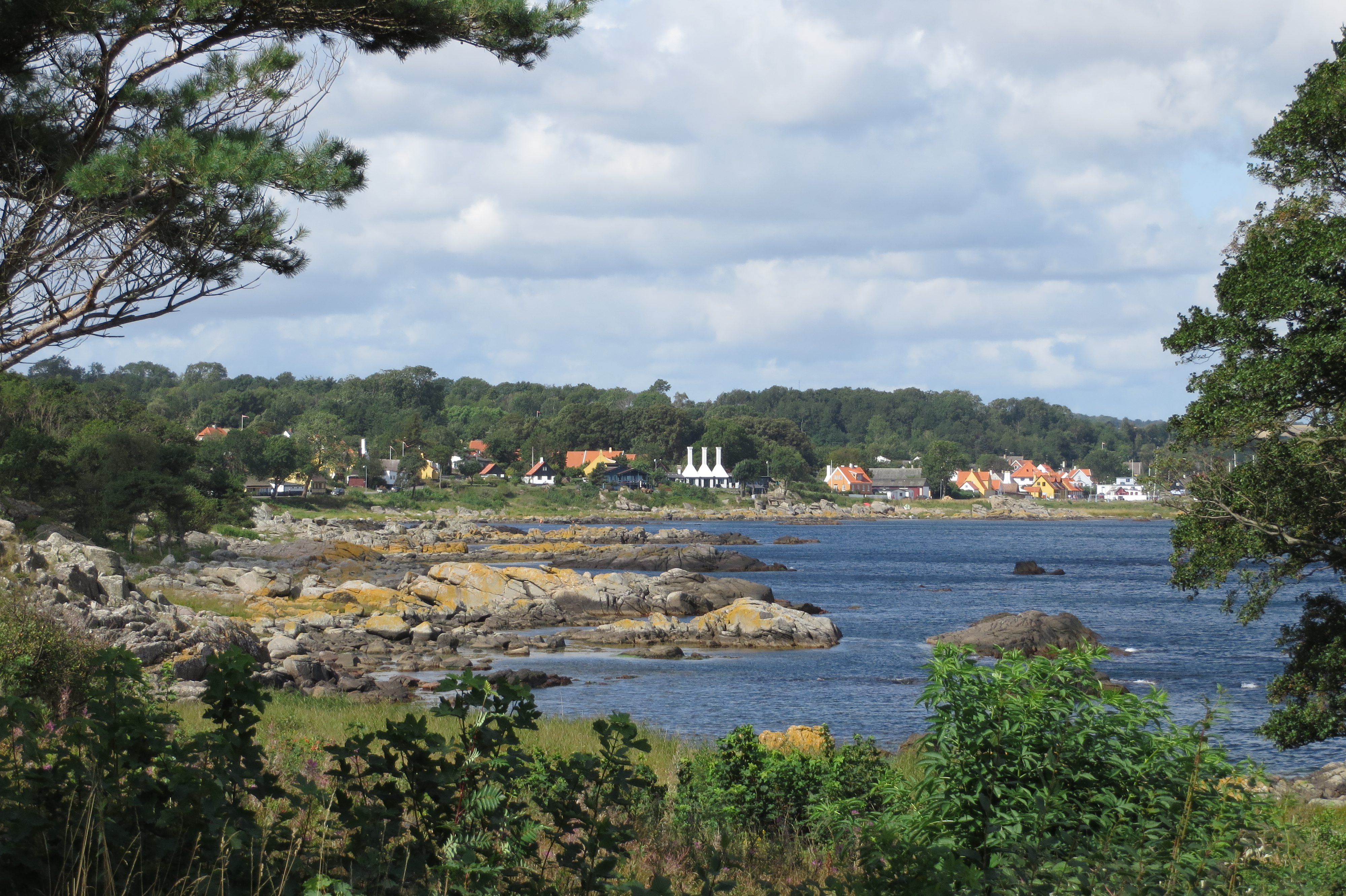 Listed, Bornholm